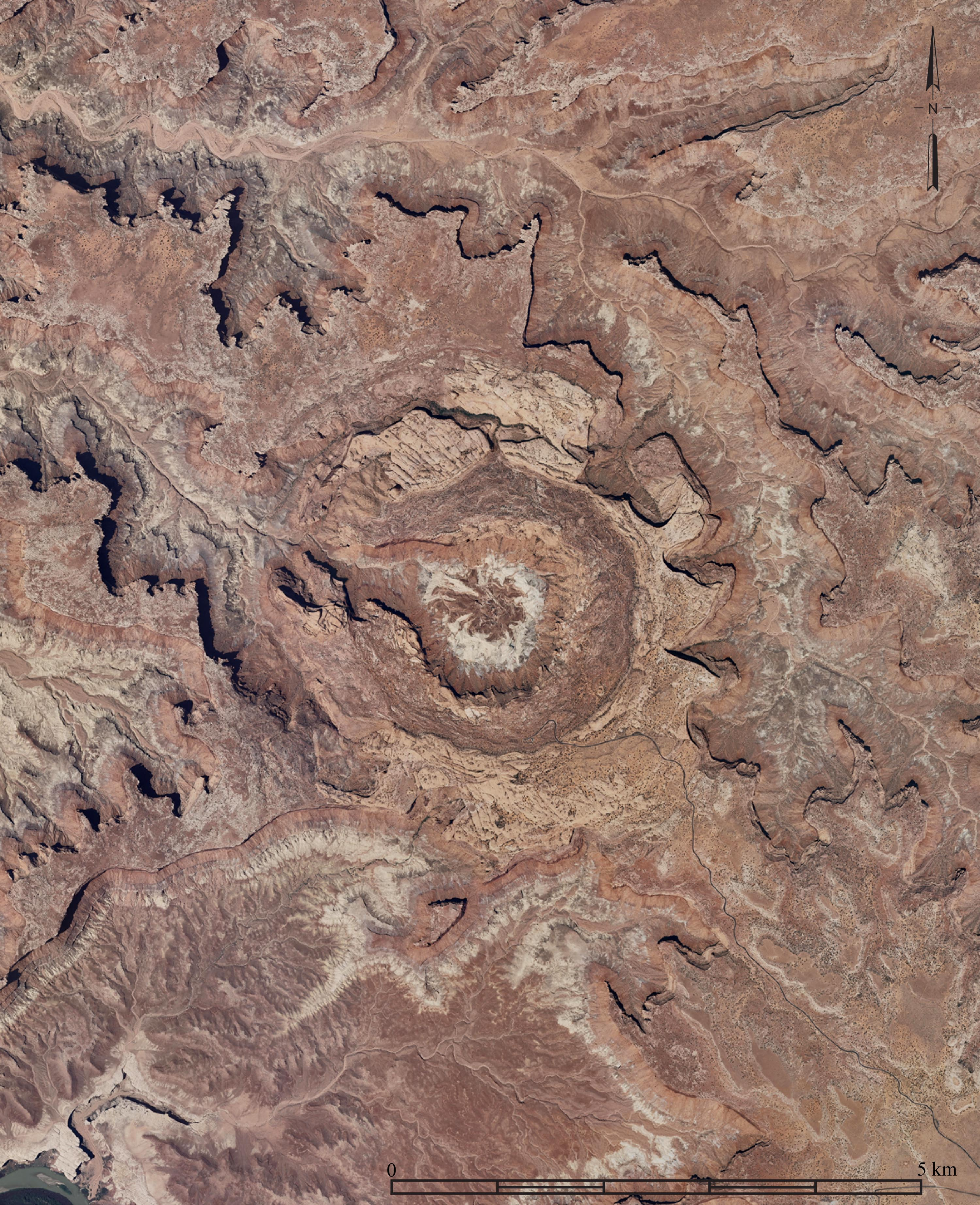 Aerial image of Upheaval Dome extraterrestrial impact structure, San Juan County, Utah. Excerpt from 2011 NAIP Digital Ortho Photo coverage of San Juan County, Utah by USDA-FSA-APFO Aerial Photography Field Office, November 24, 2011